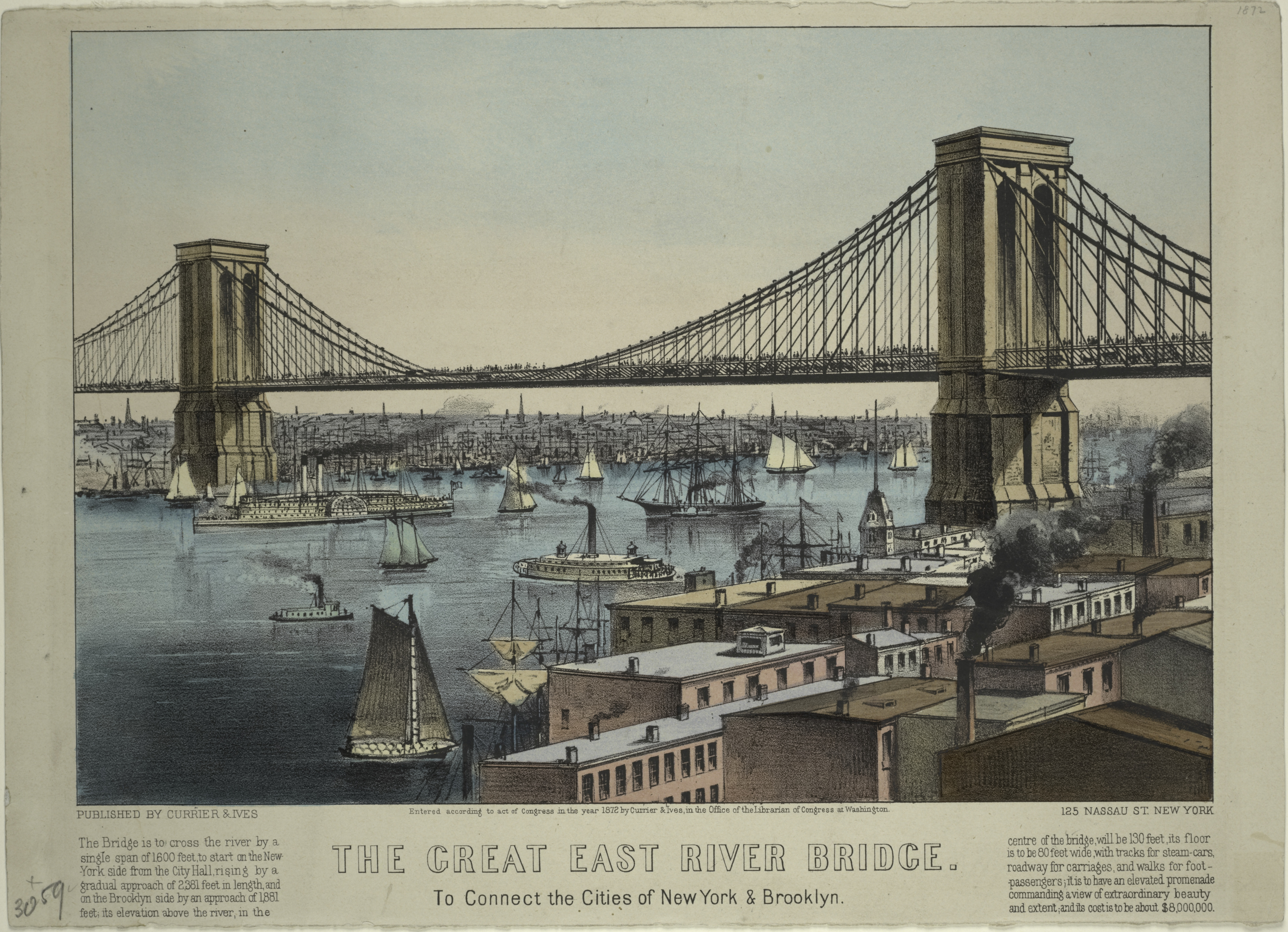 Illustration entitled "The Great East River Bridge. To connect the cities of New York & Brooklyn." Published by Currier & Ives, 125 Nassau Street, in 1872. Courtesy of the New York Public Library Digital Collection.